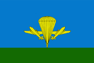 Flag of the Russian Airborne Troops (official version).